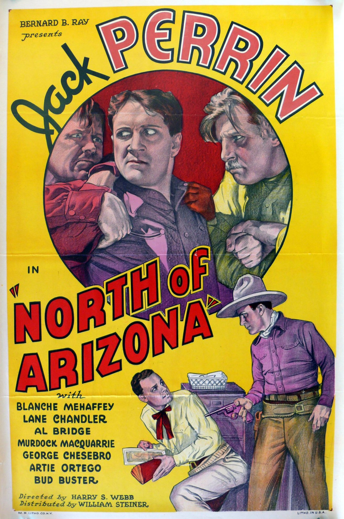 North of Arizona (1935) movie poster, starring Jack Perrin.